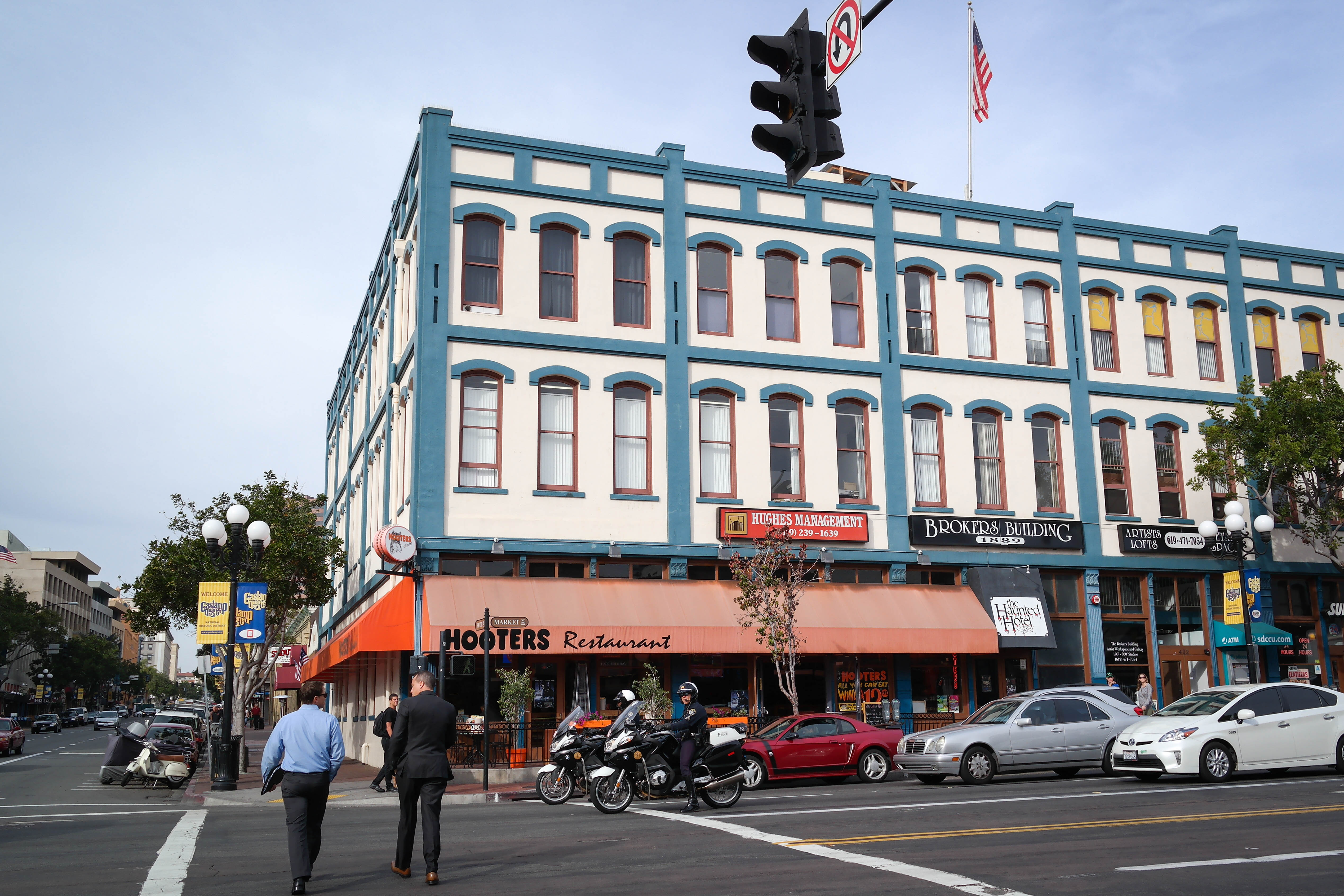 Klauber and Levi, San Diego's oldest business enterprise dating from 1869, were wholesale grocers and operated as the sole tenant of the building until 1903, although Wangenheim replaced Levi. The partnership lasted until 1929. Hollywood investors including Ron Howard briefly owned the building in the 1980s. The structure is now known as the Broker's Building.